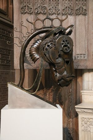 War Horse Sculpture Joe Rush